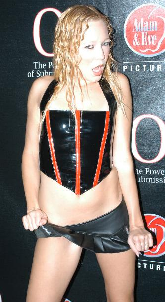 Liv Wylder at Adam and Eve party for movie O: The Power of Submission, September 14 2006